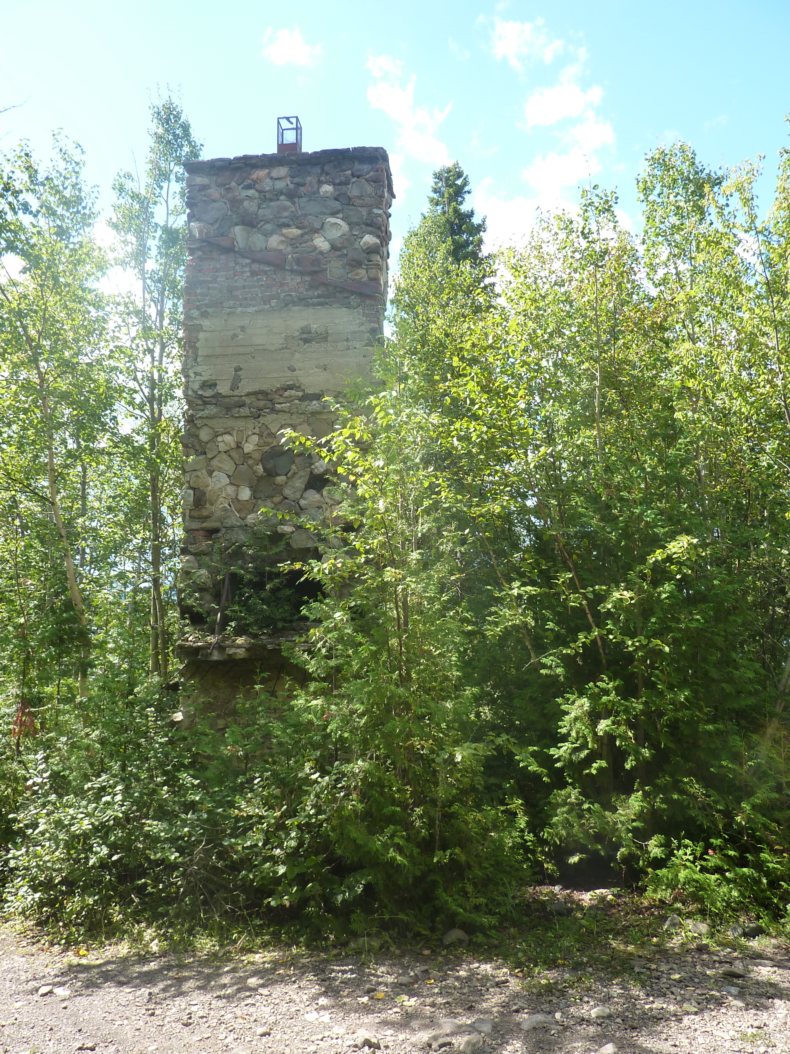 Chimney of the ruins of Soucy's chalet in Seigneurie (lordship) of Lac-Matapédia